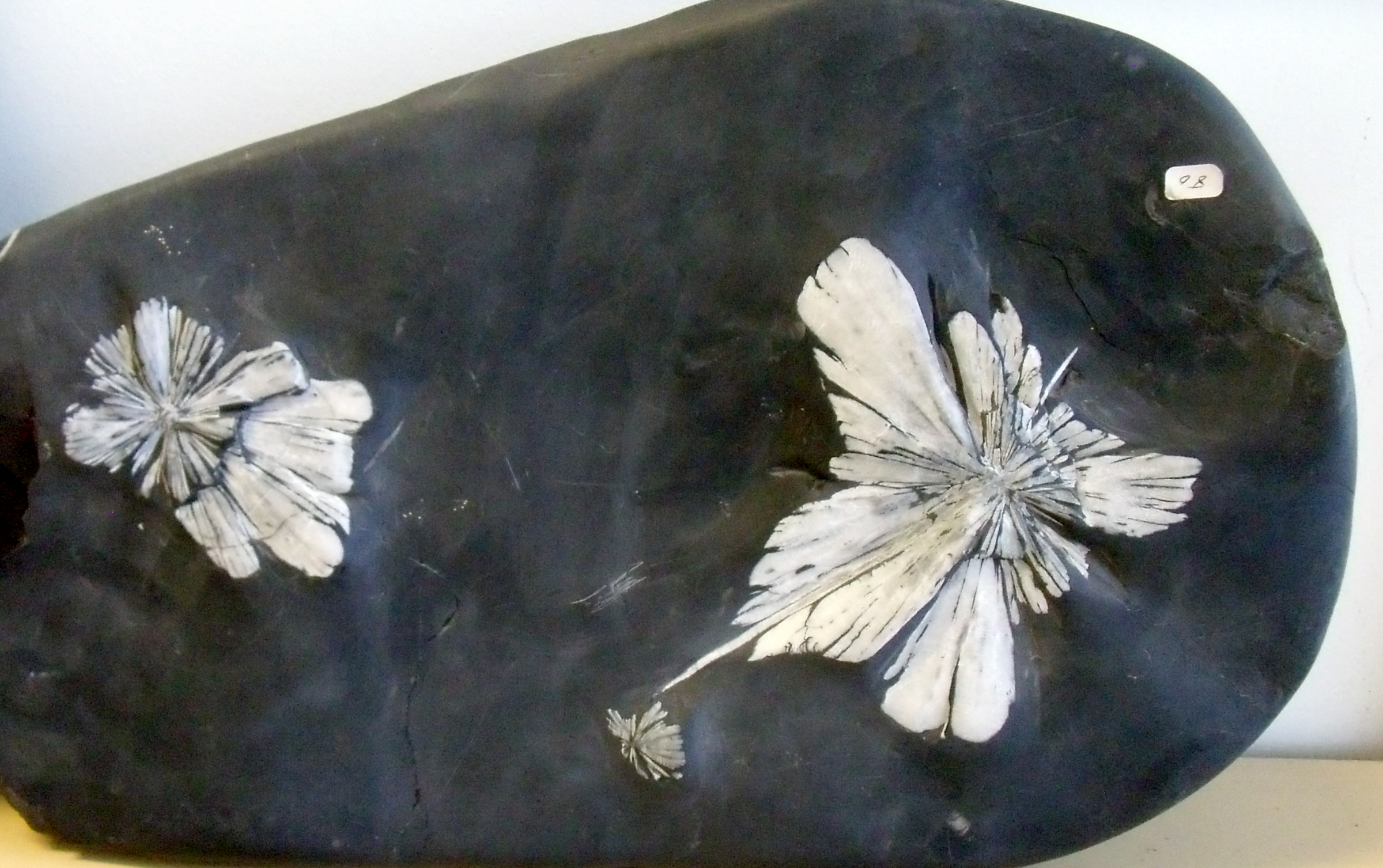 Butterflies and flowers from a higher plane of existence in a chrysanthemum stone out of China. Here is a link to cobalt123's amazing cut & polished specimen. Came across this 4 x 8 inch mudstone fluttering its wings and petals in the curator's storeroom on the Geology Display floor, Laval University, Quebec City, Canada.